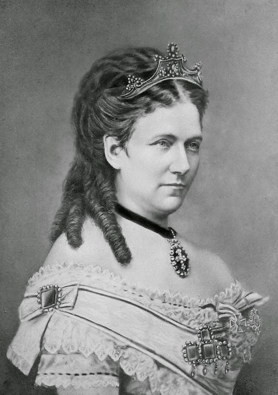 Queen Caroline (Carola) of Saxony, as released by image scanner Ristesson